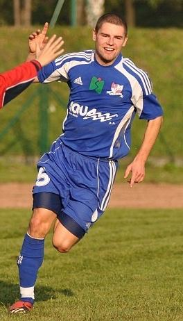 Krzysztof Chrapek – Polish striker.